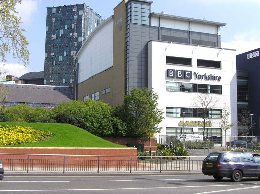 BBC Yorkshire, Leeds It overlooks St Peter's Square